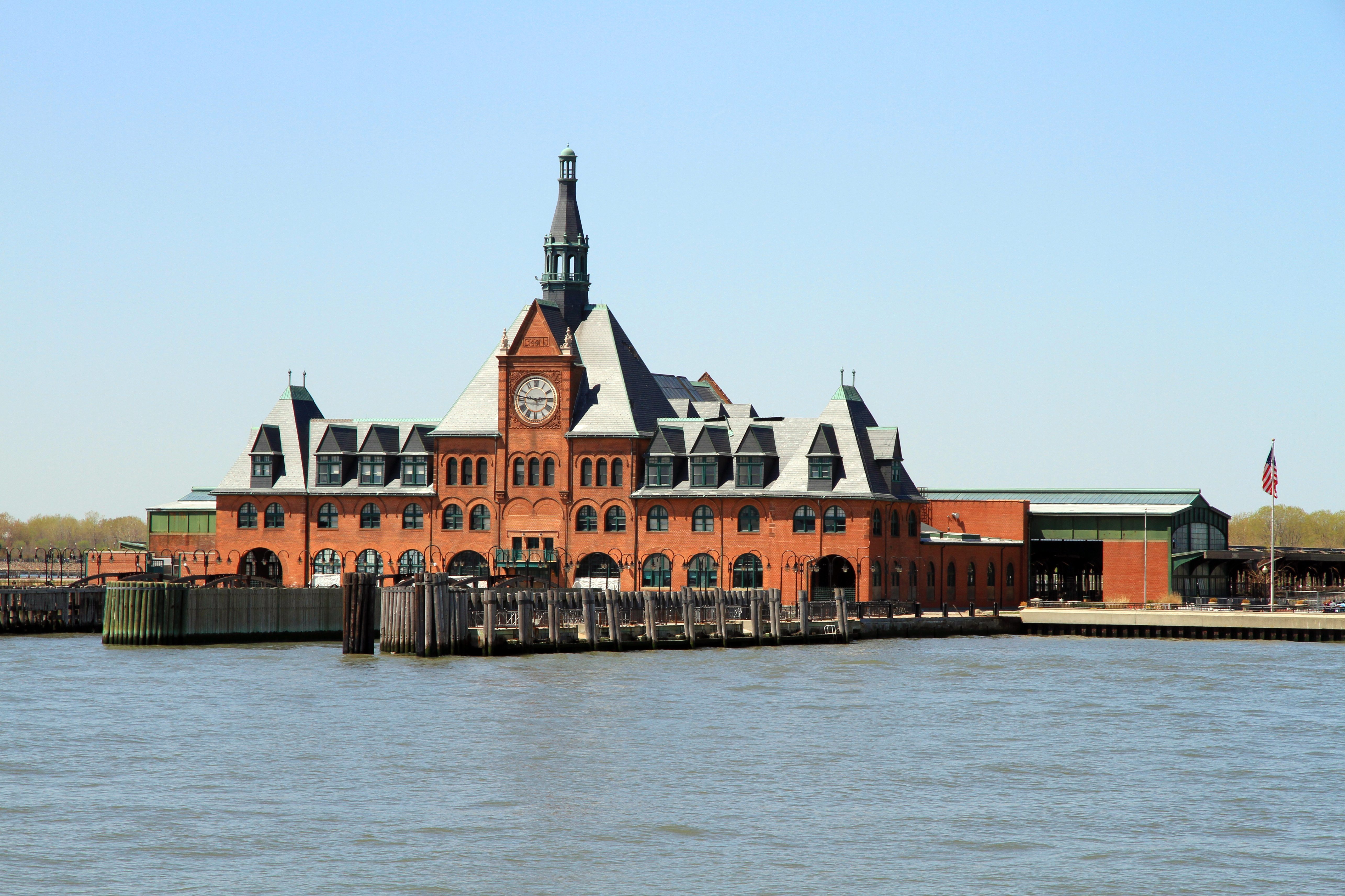 Central Railroad of New Jersey Terminal